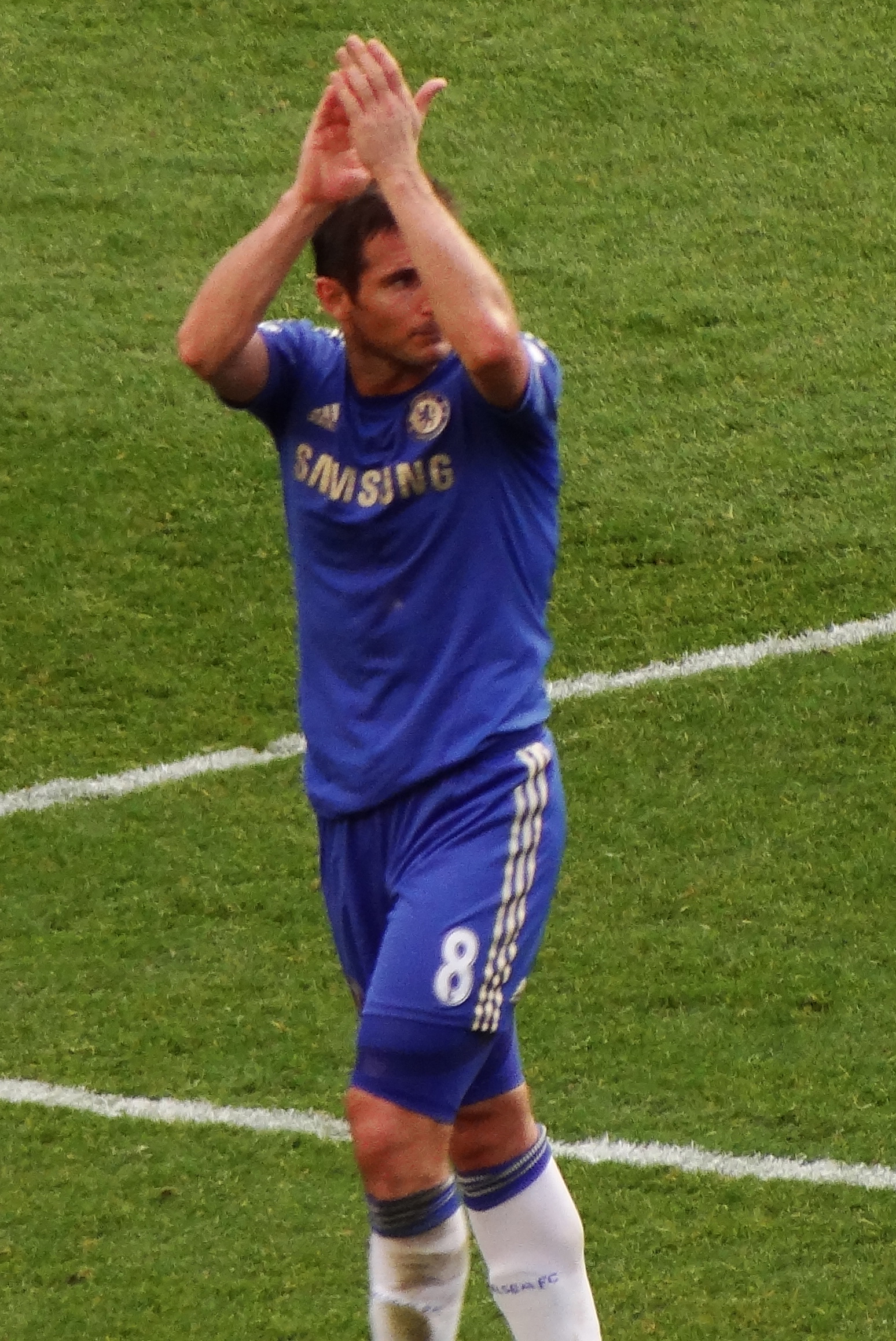 Lampard saluting the crowd